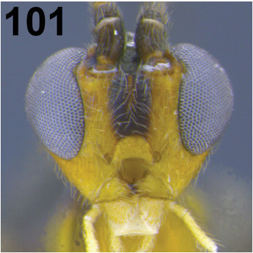 head frontal